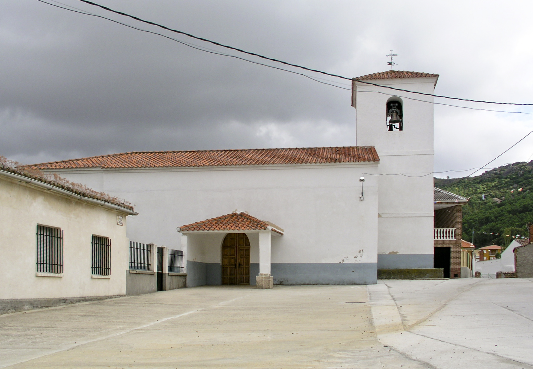 Iglesia, Puerto de San Vicente, Province of Toledo, Spain.